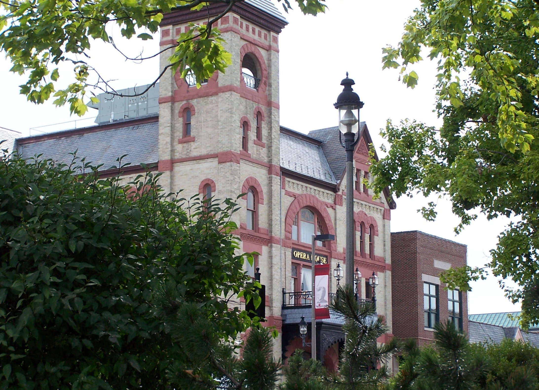 Woodstock, Illinois Opera House. Photograph taken on August 13, 2006 by Cosmo1976.